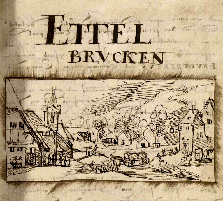 "Ettelbrucken", Ettelbruck by Jean Bertels, ~1597